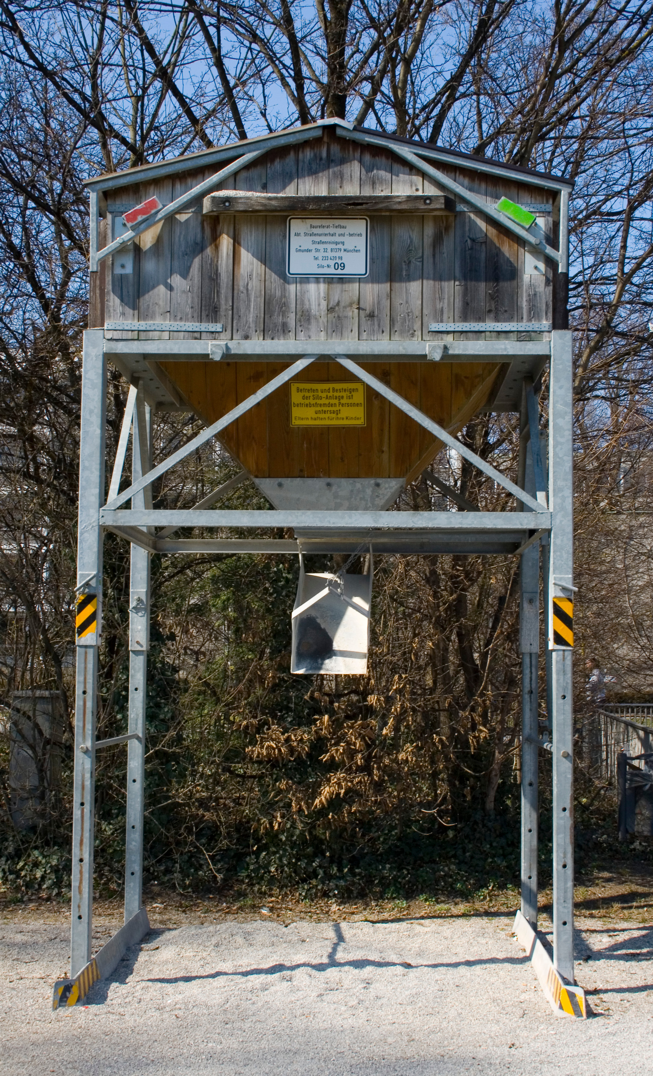 Silo, Königsplatz, Munich, Germany